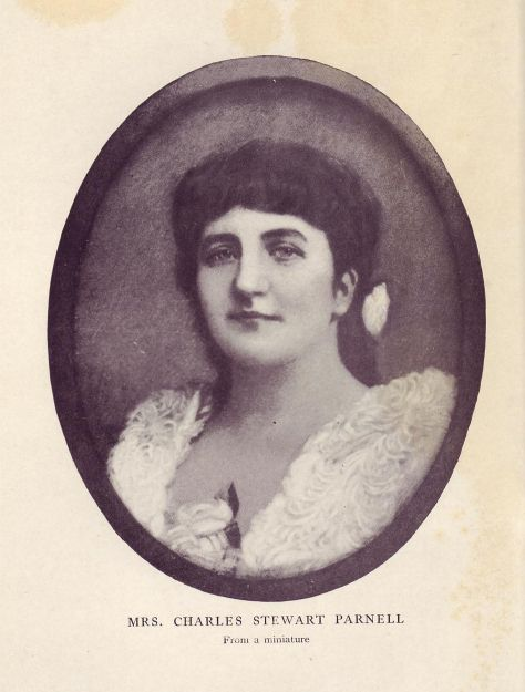 This picture is from the biography 'Charles Stewart Parnell: His Love Story and Political Life' that she (Katharine O'Shea) authored (1914) under the name 'Katharine O'Shea (Mrs Charles Stewart Parnell).'